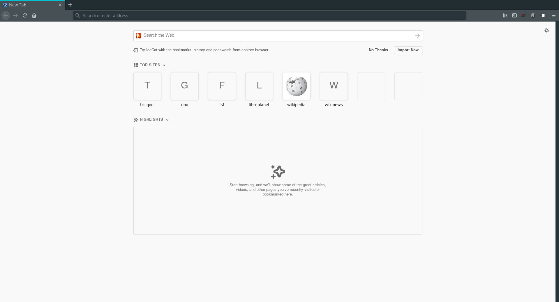 A screenshot of the GNU IceCat browser when it is opened for the first time, with all normal defaults and no different user configurations